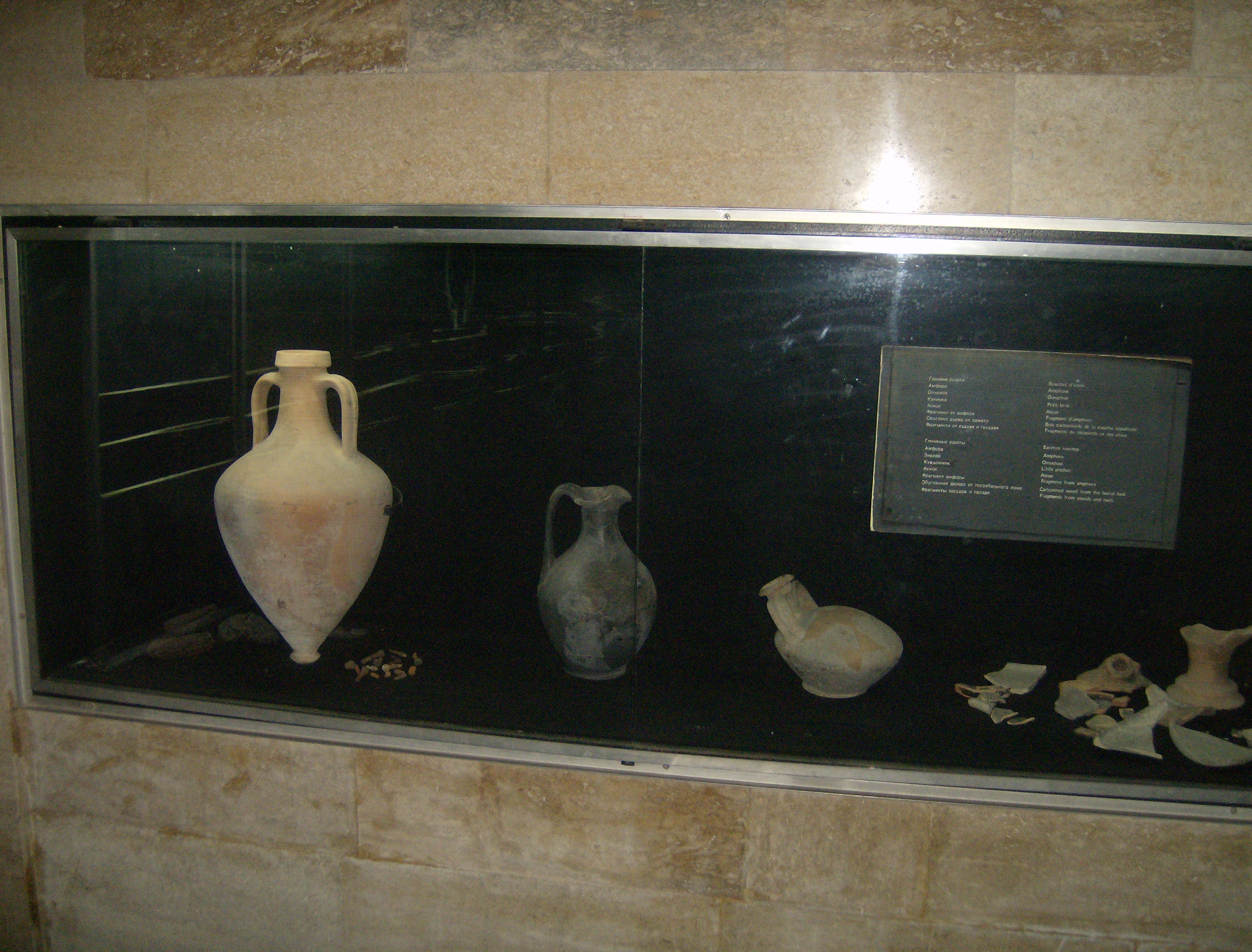 Thracian tomb (Kazanlak)